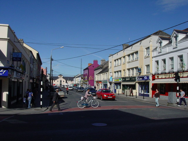 Patrick Street, Tullamore, near to Tulach Mhor and Red Gate, Offaly, Ireland